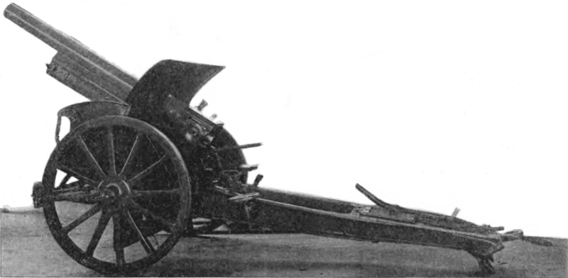 Photograph of German 10.5 cm leFH 16 (light field howitzer of 1916). This gun was acquired by the US during World War I.